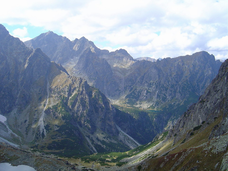 Vysny Zabi stit and Mlynar